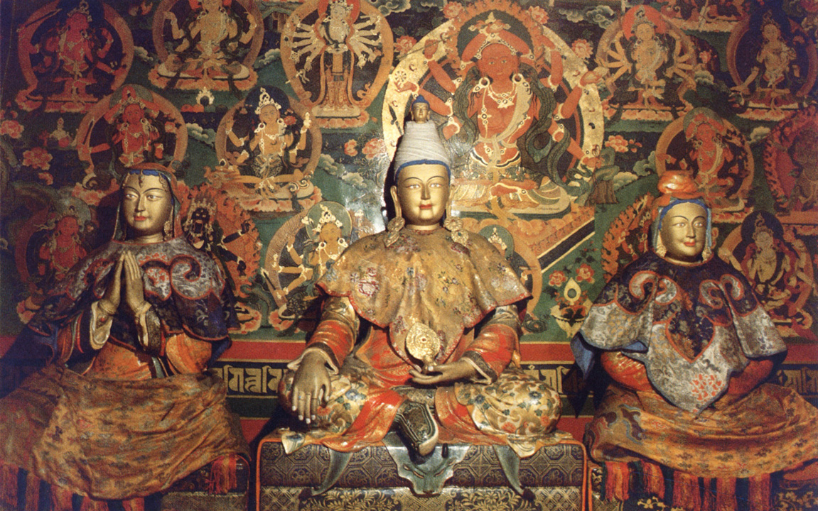 Tibetan King Srongtsong Gampo and his wives, Princess Bhrikuti of Nepal (viewer's left) and Princess Wencheng of China (viewer's right).